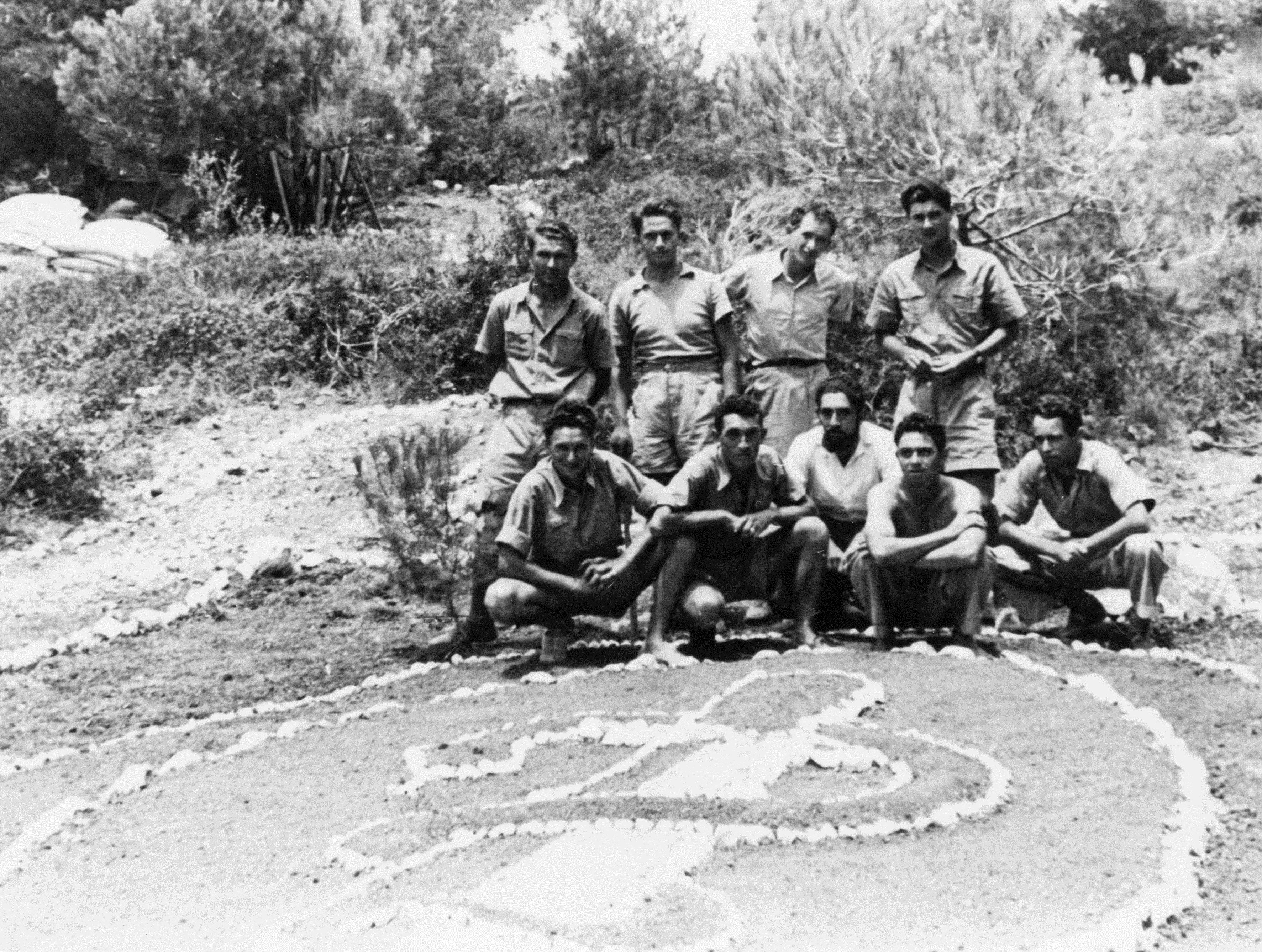 The Palmach, Israel Defense Forces